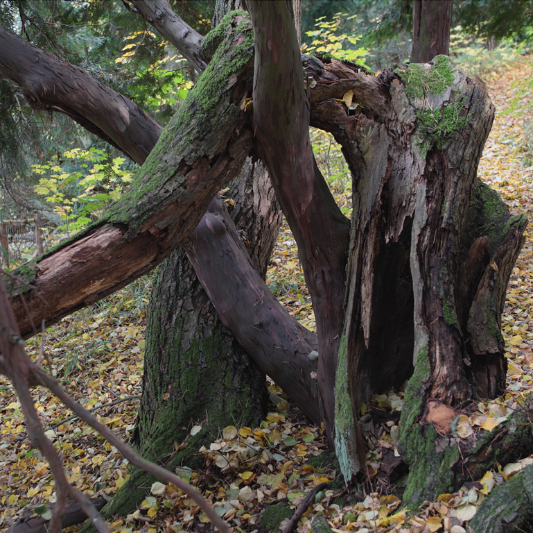 Taxus baccata (European Yew), Poland - Nature reserve "Cisy Staropolskie"